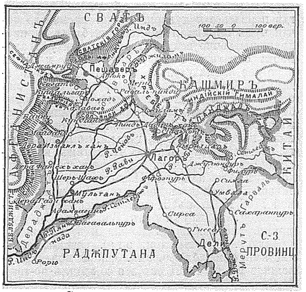 Punjab